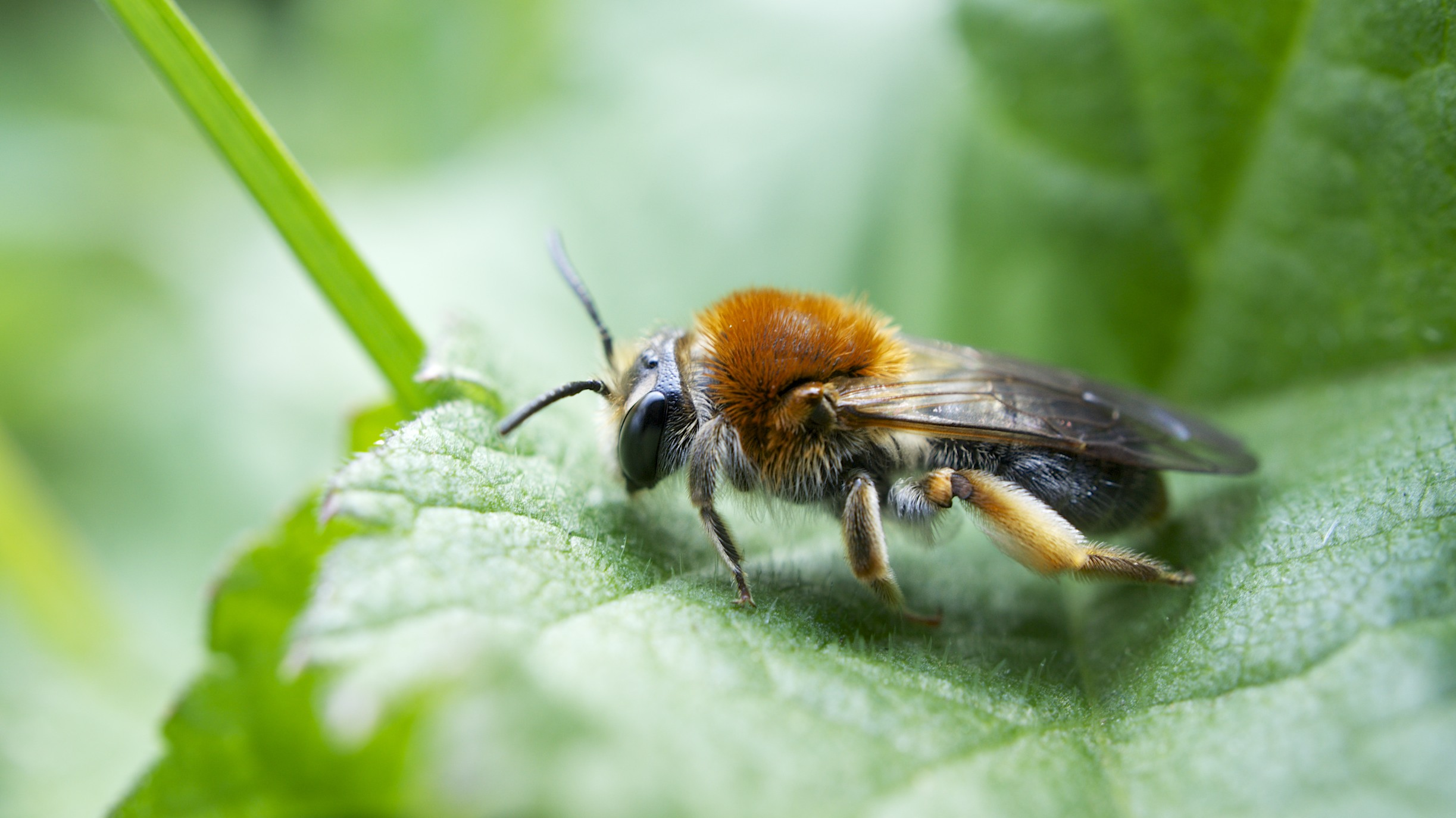 Early mining bee Andrena haemorrhoa female Badbury Rings.